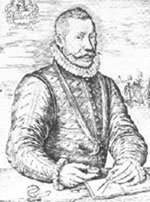 picture of Willem Bloys van Treslong